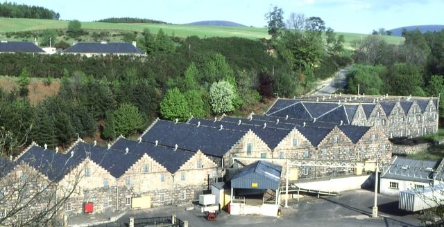 Dailuaine Distillery. Crow-stepped bonded warehouses contain millions of pounds worth of maturing malt whisky - and of prospective tax revenue :-(